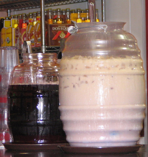 Photograph by ManekiNeko and released to the public domain. Two large jars of agua fresca in a Mexican restaurant in Seattle, Washington, USA. On the left is a jar of jamaica and on the right is a jar of horchata. Restaurant employees serve the drinks by ladling them from the jars into glasses.